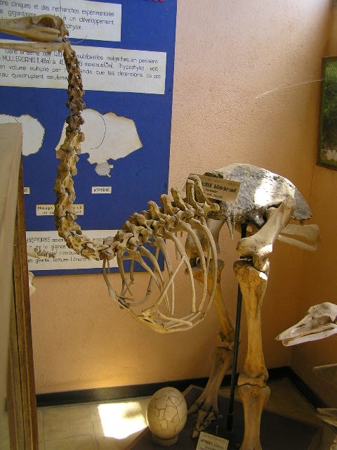 An Aepyornis (elephant bird) skeleton at Tsimbazaza Zoo, Madagascar. Said on the sign to be Aepyornis hildebrandti.